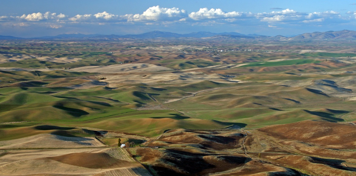 This was taken April 2007 at 5:19 pm from Steptoe Butte of the Palouse Hills in Washington. At this time I was taking just jpg pictures, no RAW. I regret that. Now I'm taking RAW exclusively because so much more detail and light can be pulled out of that format. But I still like it--this is such a unique rumpled area! The look of this area is due to many layers of silt left by multiple Missoula floods which were were topped by loess (dirt blown on top) and make for great rolling hills of farmlands.